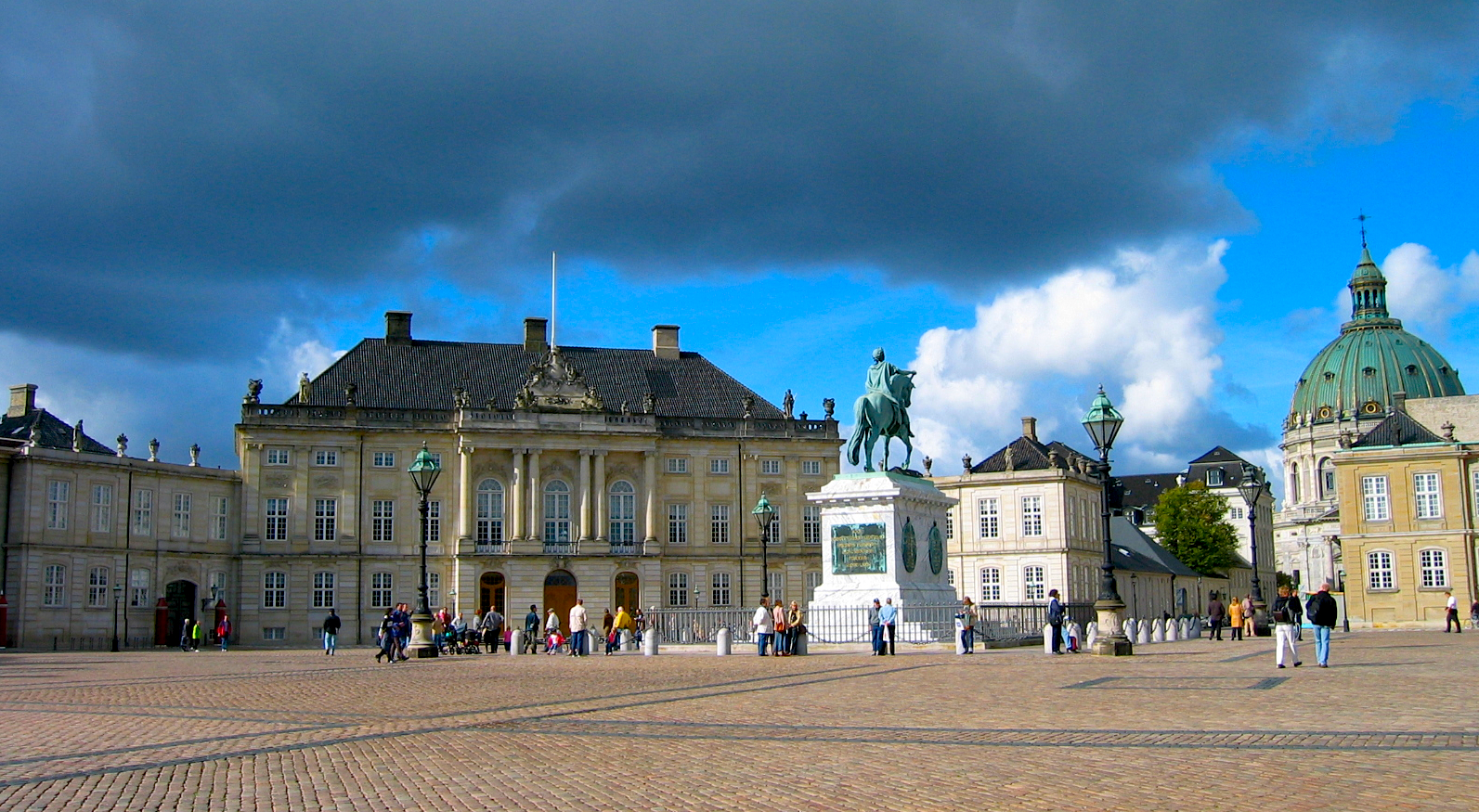 Amalienborg Palace in Copenhagen